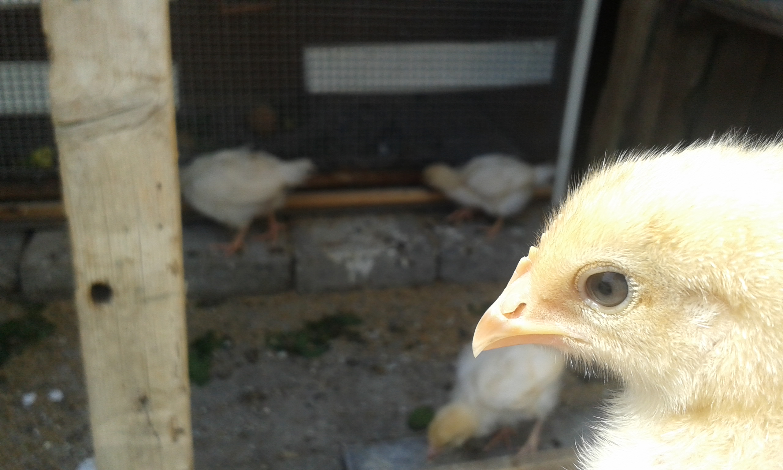 هذه الصورة هي لكتكوت صغير الدجاج